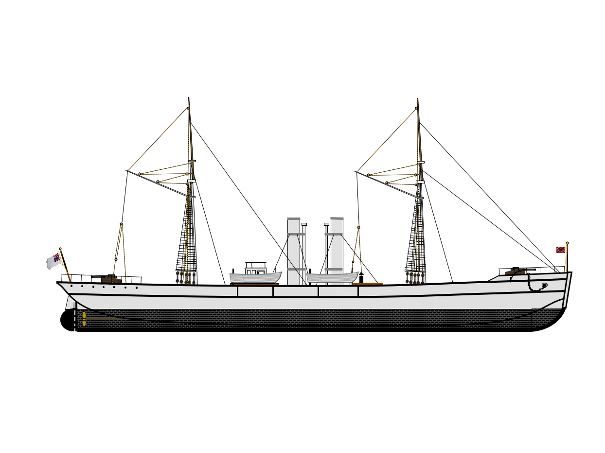 CSS Tallahassee was originally the Atalanta, built in Great Britain in 1863 and intended for running the US blockade of the CSA. An iron-hulled twin-screw steamer, she was capable of at least 20 knots. After several passages through the blockade, she was taken into Confederate service as the CSS Tallahassee, later CSS Olustee, fitted with guns of various caliber, and served as a commerce raider taking some 37 prizes. Her guns were removed and she returned to running cargo through the blockade as the CSS Chameleon.